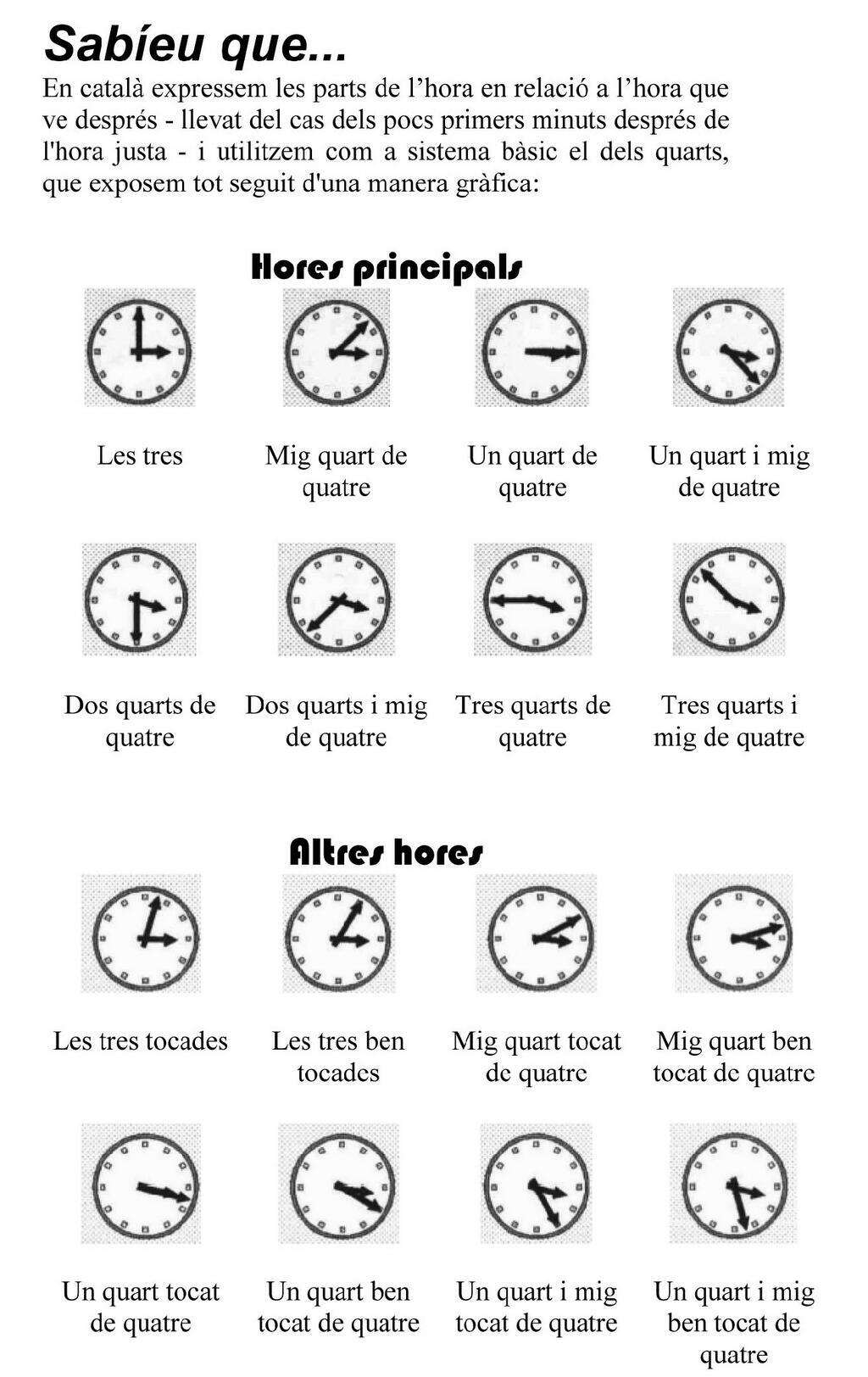 The time traditional Catalan